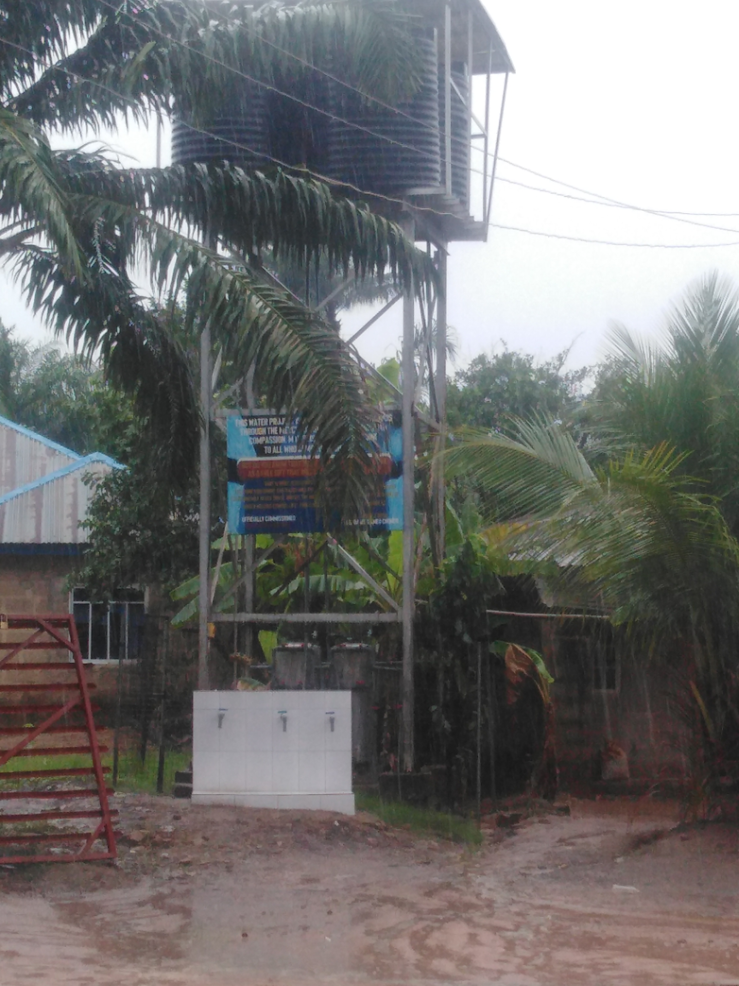 Water System in Ningxia